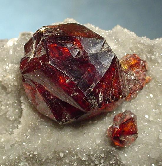 Sphalerite, Quartz Locality: Kangjiawan Pb-Zn-Ag-Au deposit, Shuikoushan ore field, Changning County, Hengyang Prefecture, Hunan Province, China (Locality at ) Size: 6.8 x 5.9 x 3.0 cm. A beautiful, gem, 1.8 cm, twinned, cherry-red sphalerite crystal is very aesthetically attached to the sparkly, drusy quartz-covered, two-sided matrix crust on this fine specimen from recent finds in Hunan Province, China. Very highly representative of the species and locale. These are some of the finest and gemmiest sphalerites in the world.